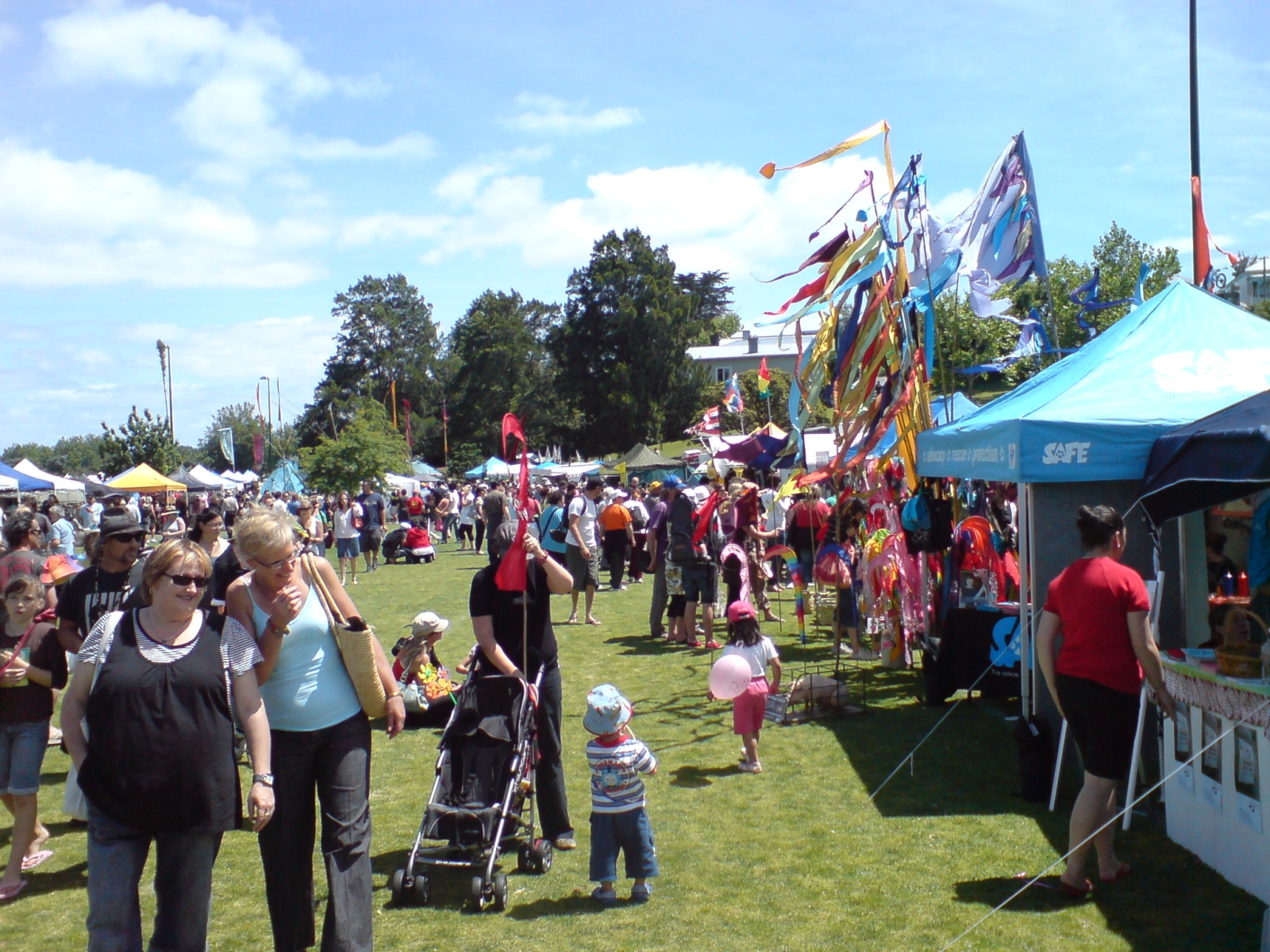 The Grey Lynn Festival 2008, Grey Lynn Auckland City, New Zealand.